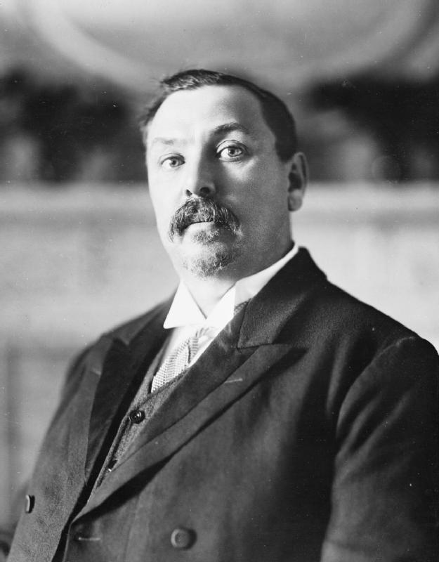 Prime Minister of South Africa 1910-19 Born in Natal in 1862, Louis Botha first came to prominence in South African politics when he helped launch the New Republic Vryheid district of Zululand. During the Second Anglo-Boer War, Botha enlisted and rose rapidly to the rank of general, taking command of all Boer forces in 1900. After the Vereeniging Peace Treaty, Botha returned to politics and, through his party Het Volk, advocated self goverment for South Africa. In 1907, he was appointed Prime Minister of the Transvaal before becoming the first Prime Minister of the Union of South Africa in 1910. On the outbreak of the First World War, Botha offered South Africa's support to Britain and undertook to lead the successful campaign to take the German colony of South West Africa. Botha's consistent support for Britain during the First World War weakened his political position and led to unrest in South Africa. After unsuccessfully bidding for former German South West Africa to be incorporated in the Union of South Africa at the Versailles Peace Conference, Botha's health gave way. He died of pneumonia in August 1919. Faces of the First World War Find out more about this First World War Centenary project at This image is from IWM Collections. The Museum released this image on a custom licence - IWM Non-Commercial license. However where the photograph has no known author, these are public domain under the 70 rule and where they were owned by the Ministry of Information, any other government department or agency, taken by a member of the military during their service or by a photographer commissioned by the services, these are now out of copyright restriction.